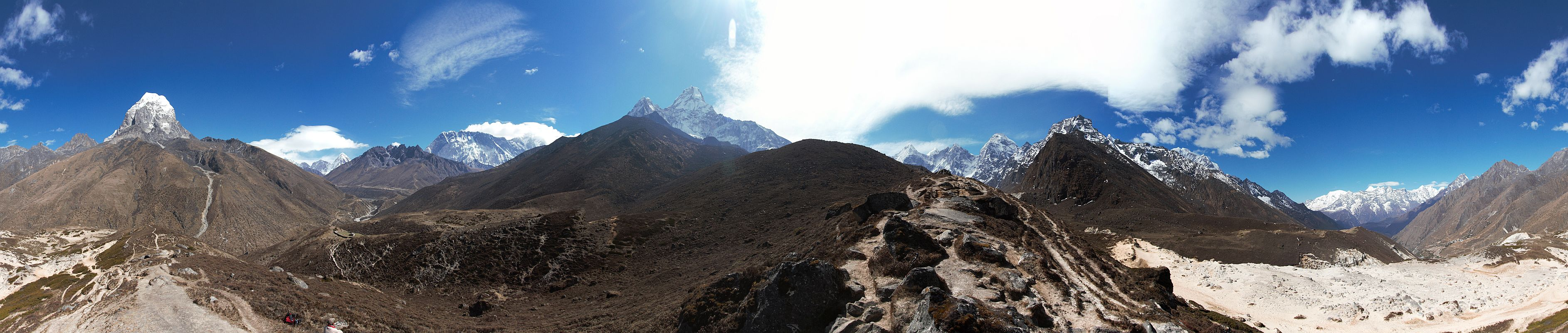 A view from the Mount Everest Base Camp(Altitude of 5,364 metres (17,598 ft)) - Tengboche to Dingboche .नेपाली: सगरमाथा आधार शिविरवाट देखिएको टेङबोचे देखि डिङबोचे सम्मको एक मनोरम दृश्य ।